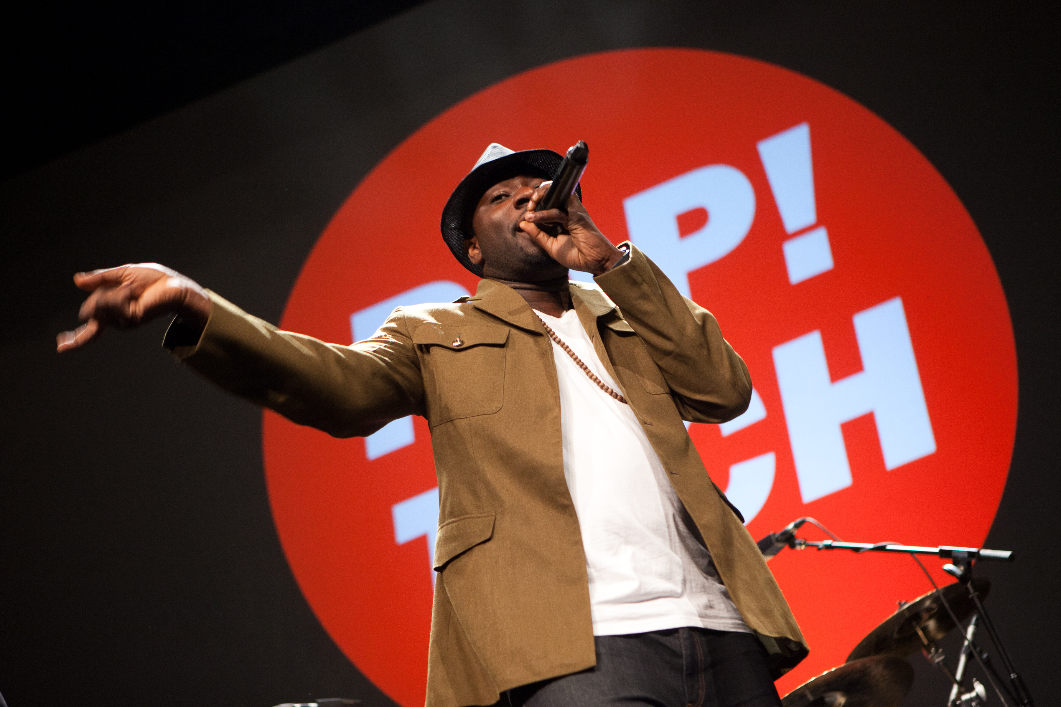 Blitz the Ambadassor perform on stage at PopTech following the Thursday evening sessions, October 20, 2011